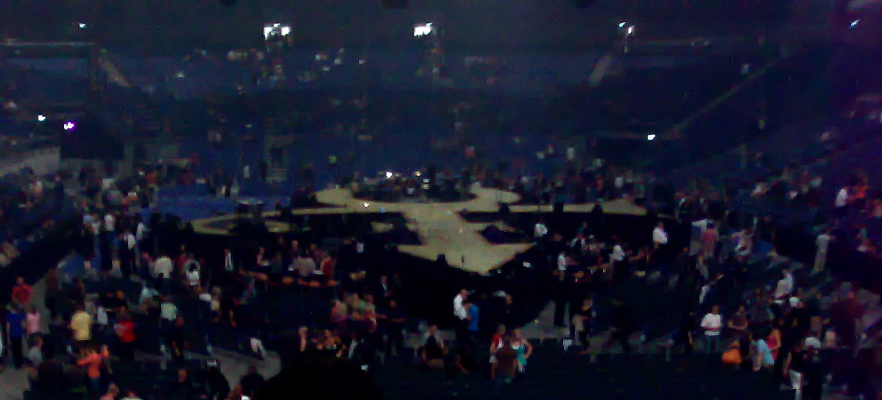 Prince symbol scene in Planet Earth tour 2007, O2 London (UK)